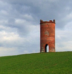 The dovecote above Nunhide Manor, Sulham